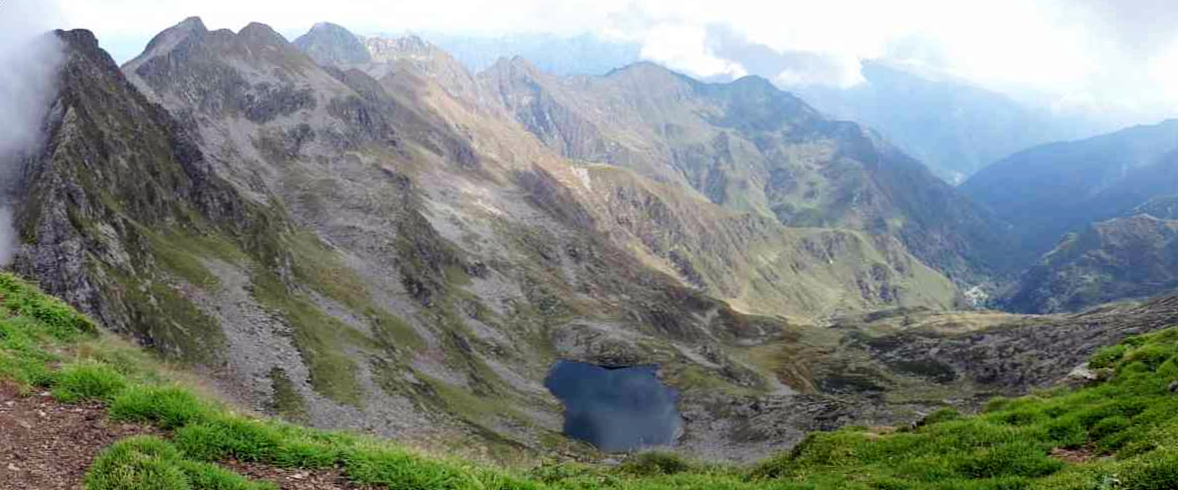 Uppermost Valle Strona and Capezzone lake from the Altemberg (Italy, Pennine Alps)